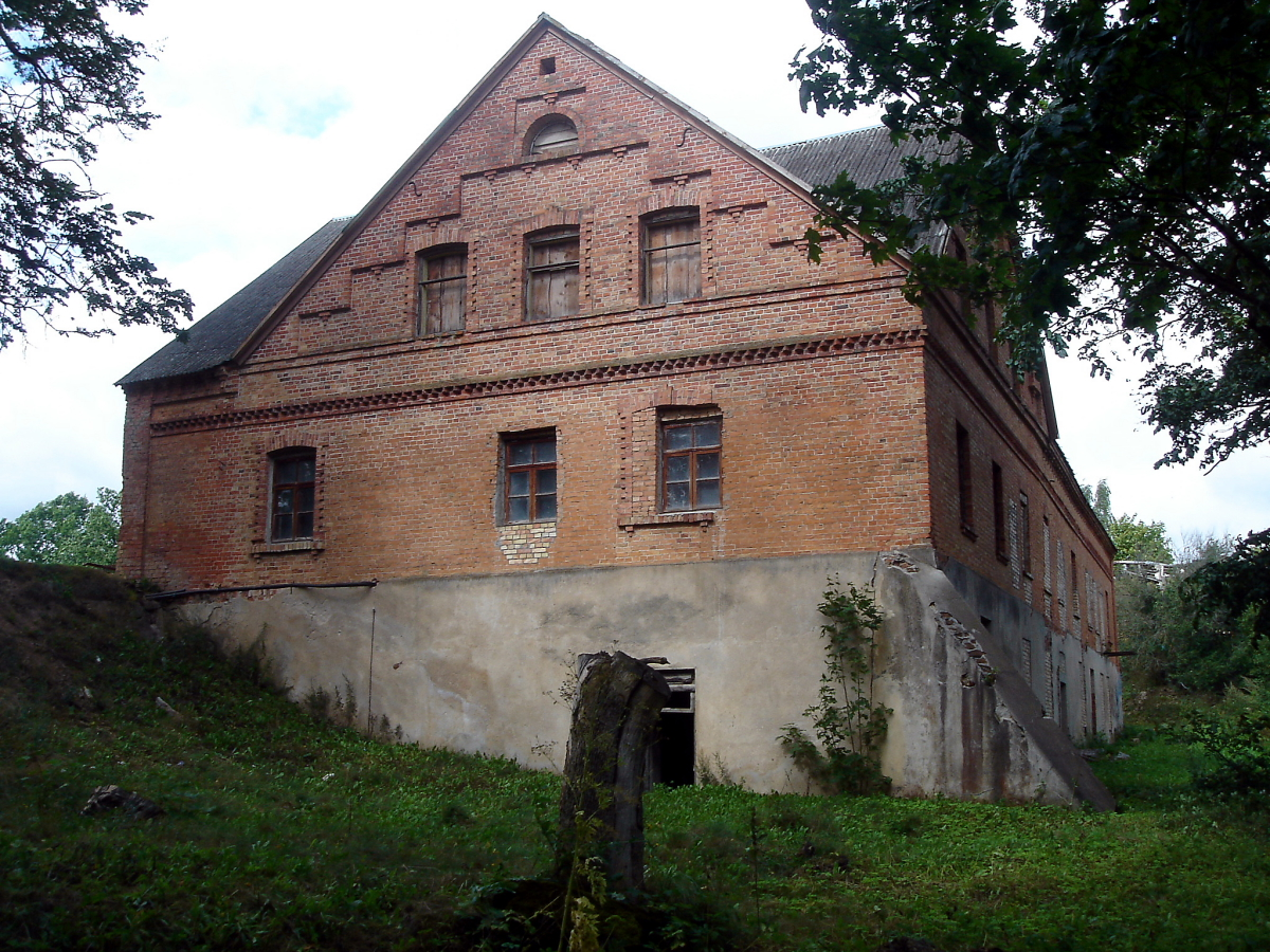 Lielberķene (Gross-Berken) watermill, LatviaLatviešu: Lielberķenes dzirnavas uz Svētes upes, Vilces pagasts